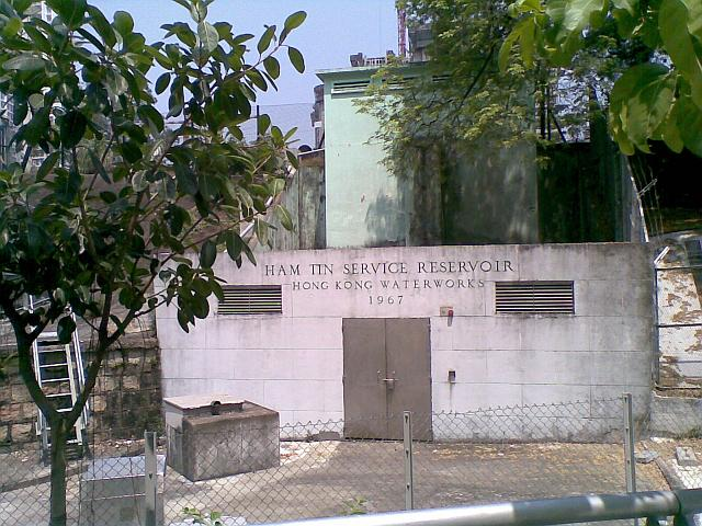 Ham Tin Service Reservoir, Lam Tin, Kowloon, Hong Kong 藍田平田街，鹹田配水庫